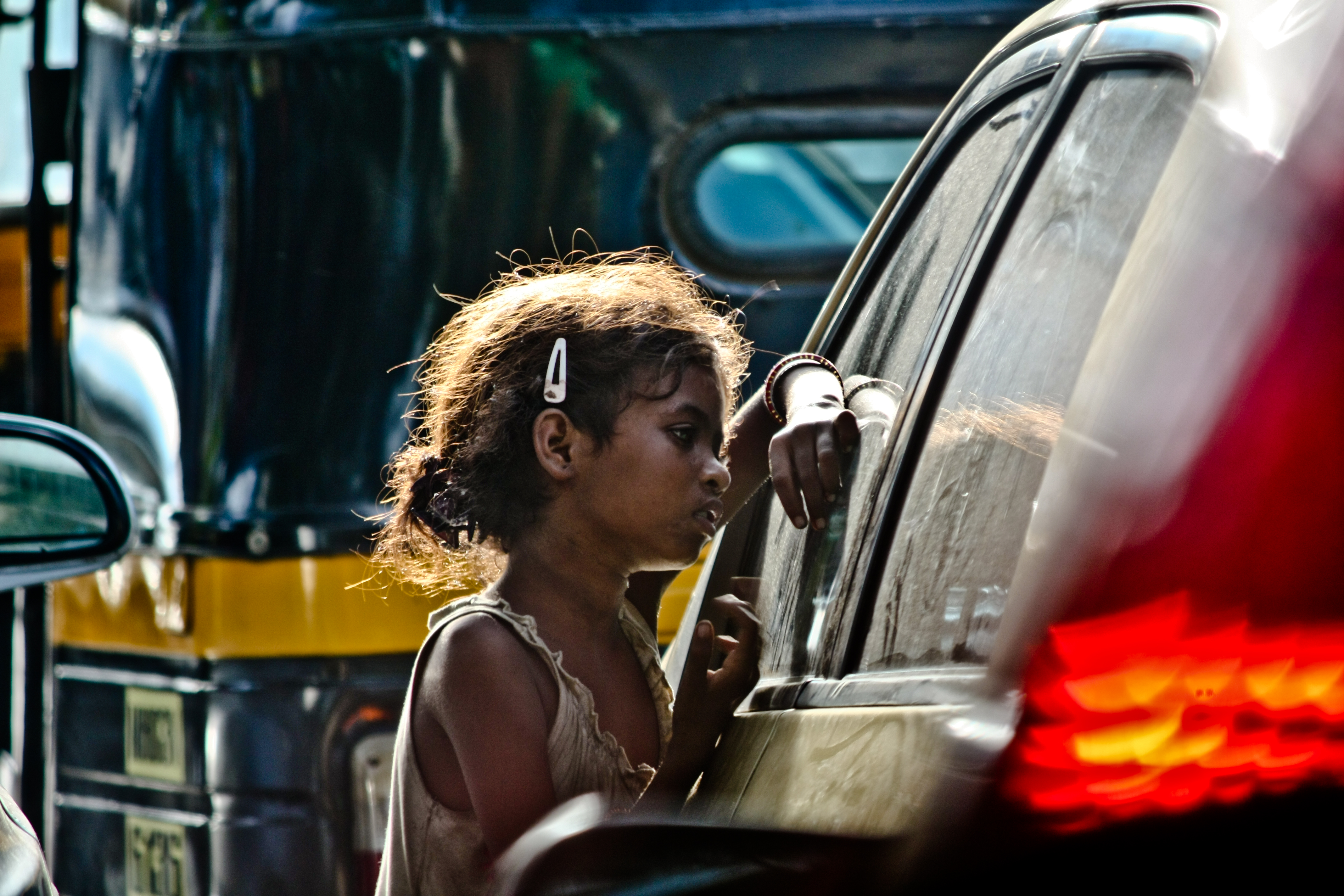 Hungry, Mumbai. Canon 5D Mark II